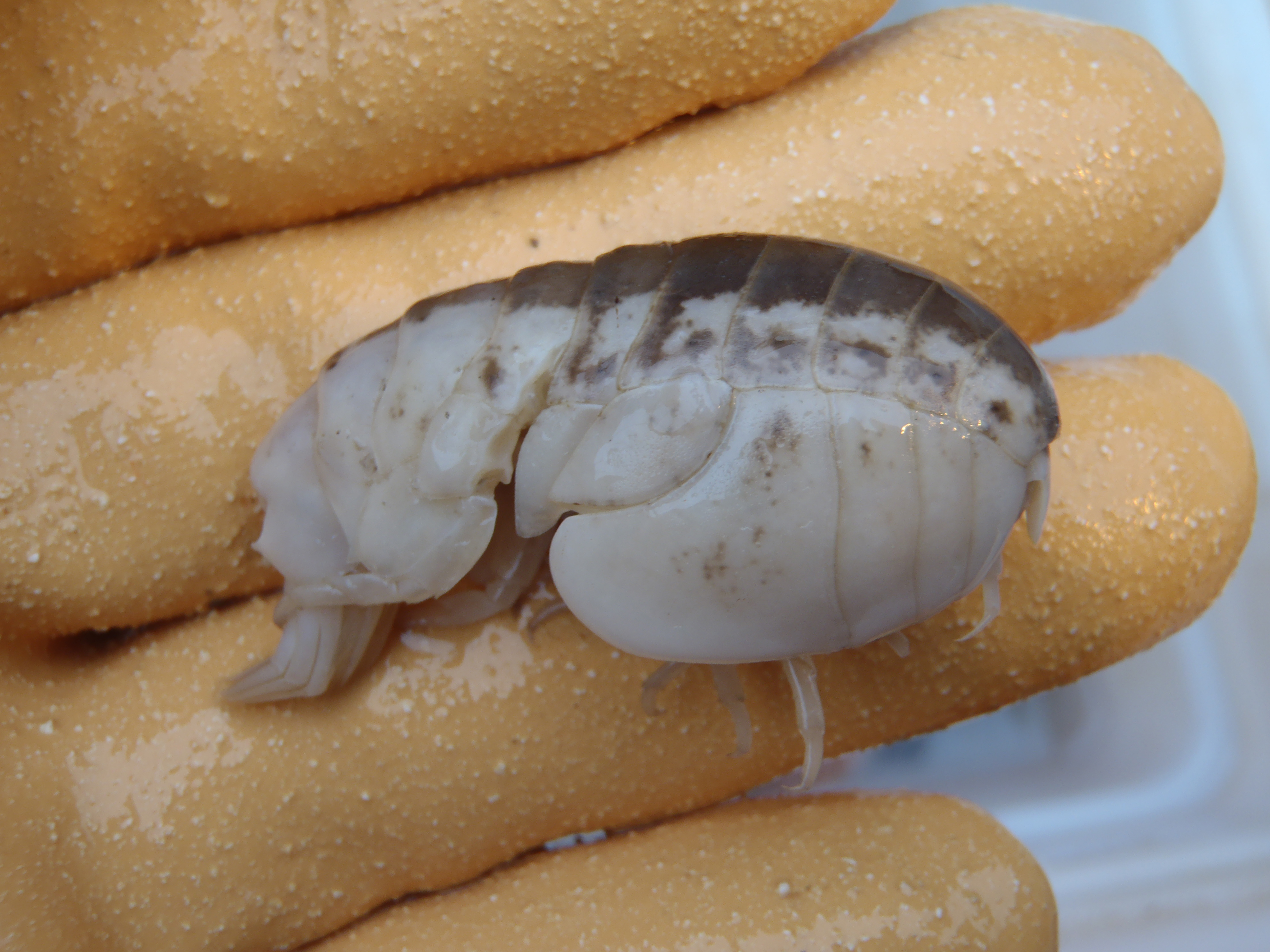 Stegocephalidae amphipod from the eastern Bering Sea.